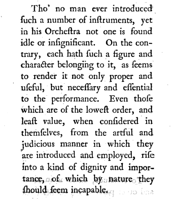 Excerpt from pages 202-203 of Memoirs of the life of the late George Frederic Handel by John Mainwaring